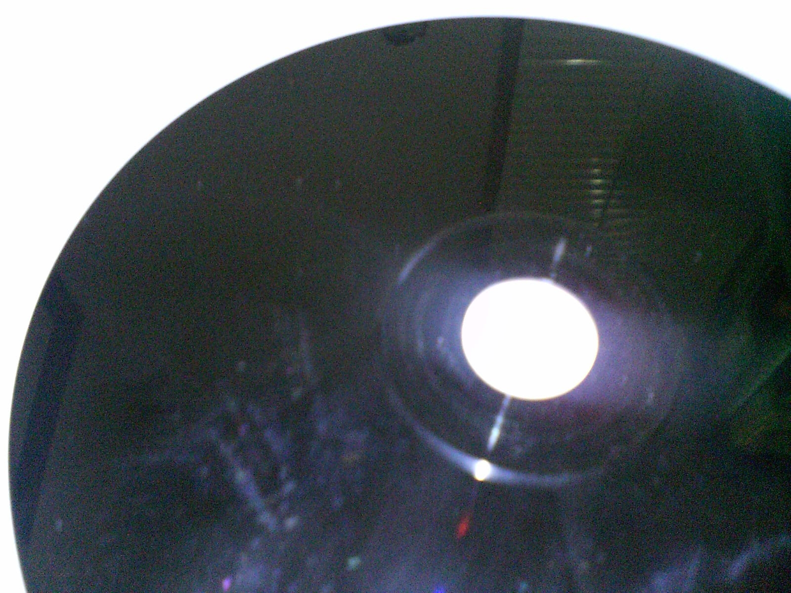 CD-ROM for PlayStation (Sample:Final Fantasy VII)